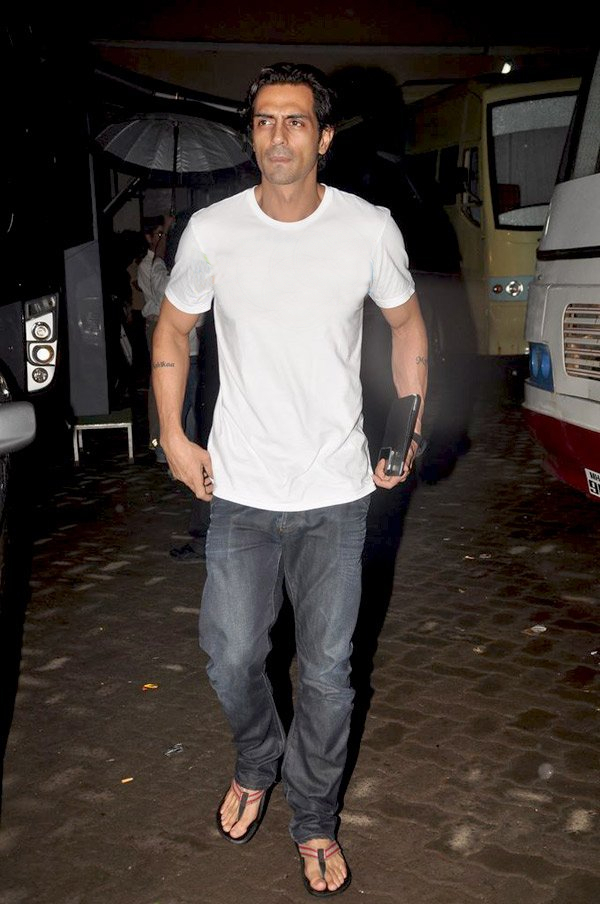 Arjun Rampal at 'Don 2' photo shoot